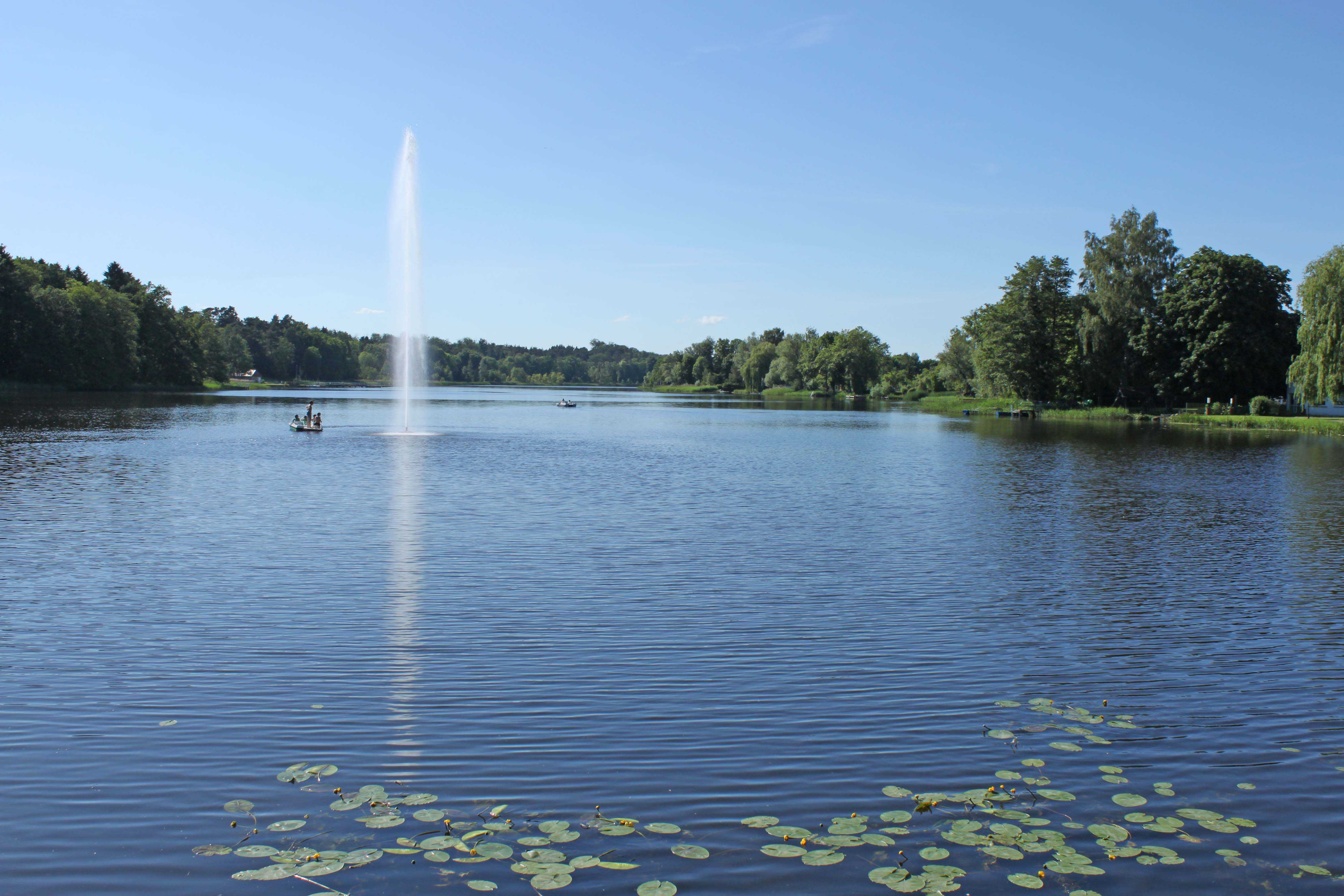 Monastery Lake, Dargun, Mecklenburg-Vorpommern, Germany